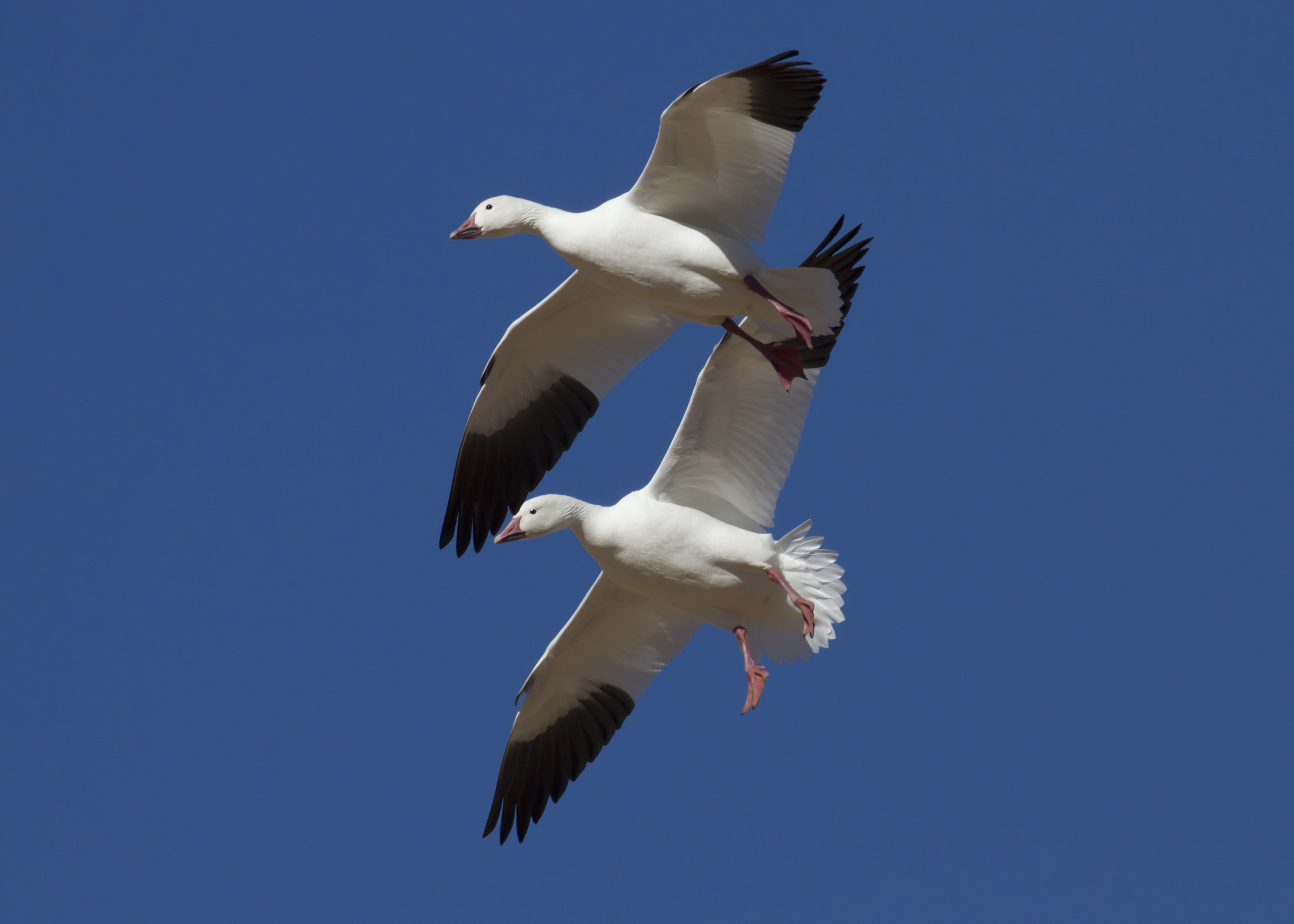 Two Snow Geese flying at Bosque del Apache National Wildlife Refuge, New Mexico, USA.